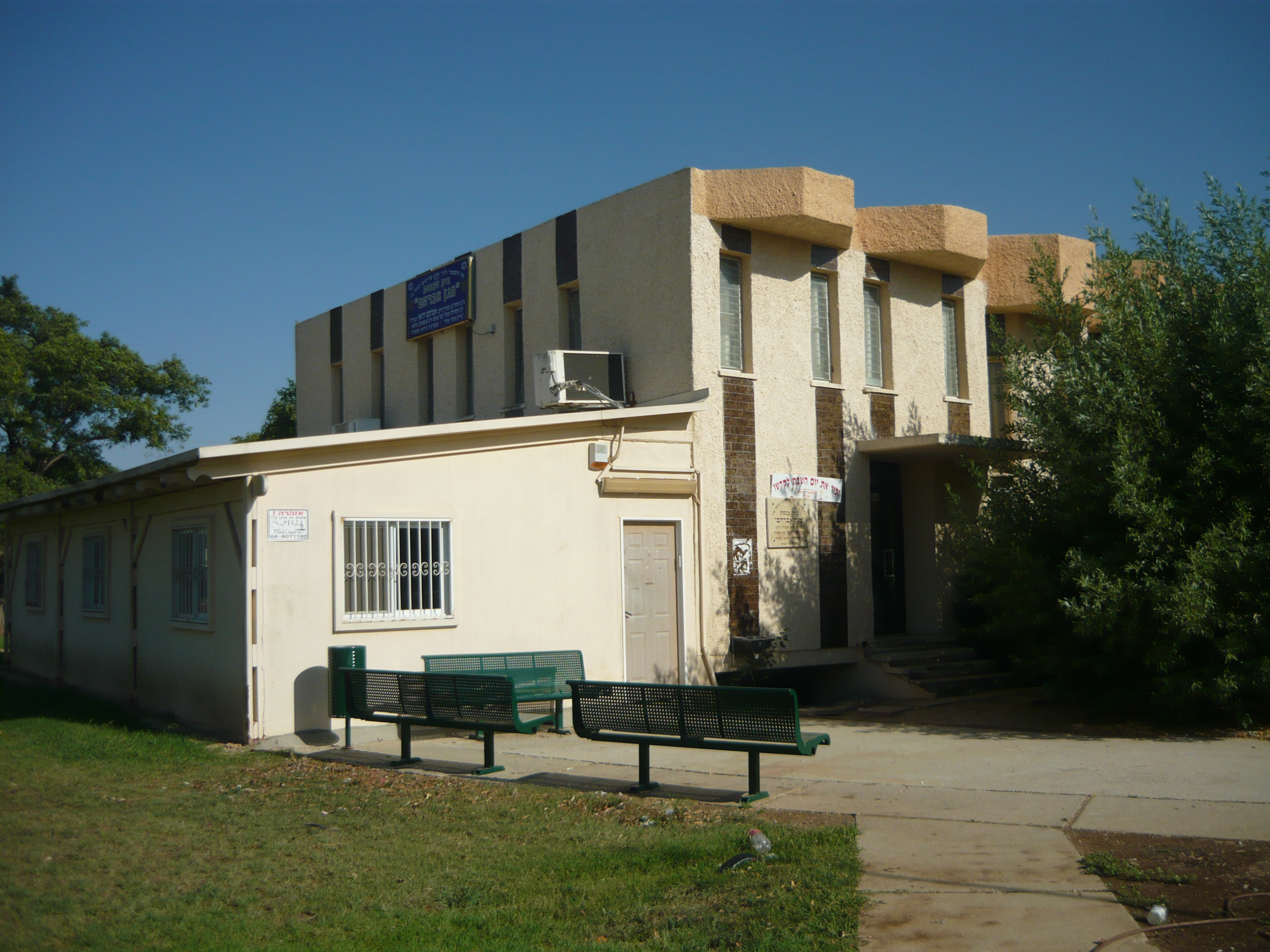 Mele'a בית הכנסת במושב מלאה